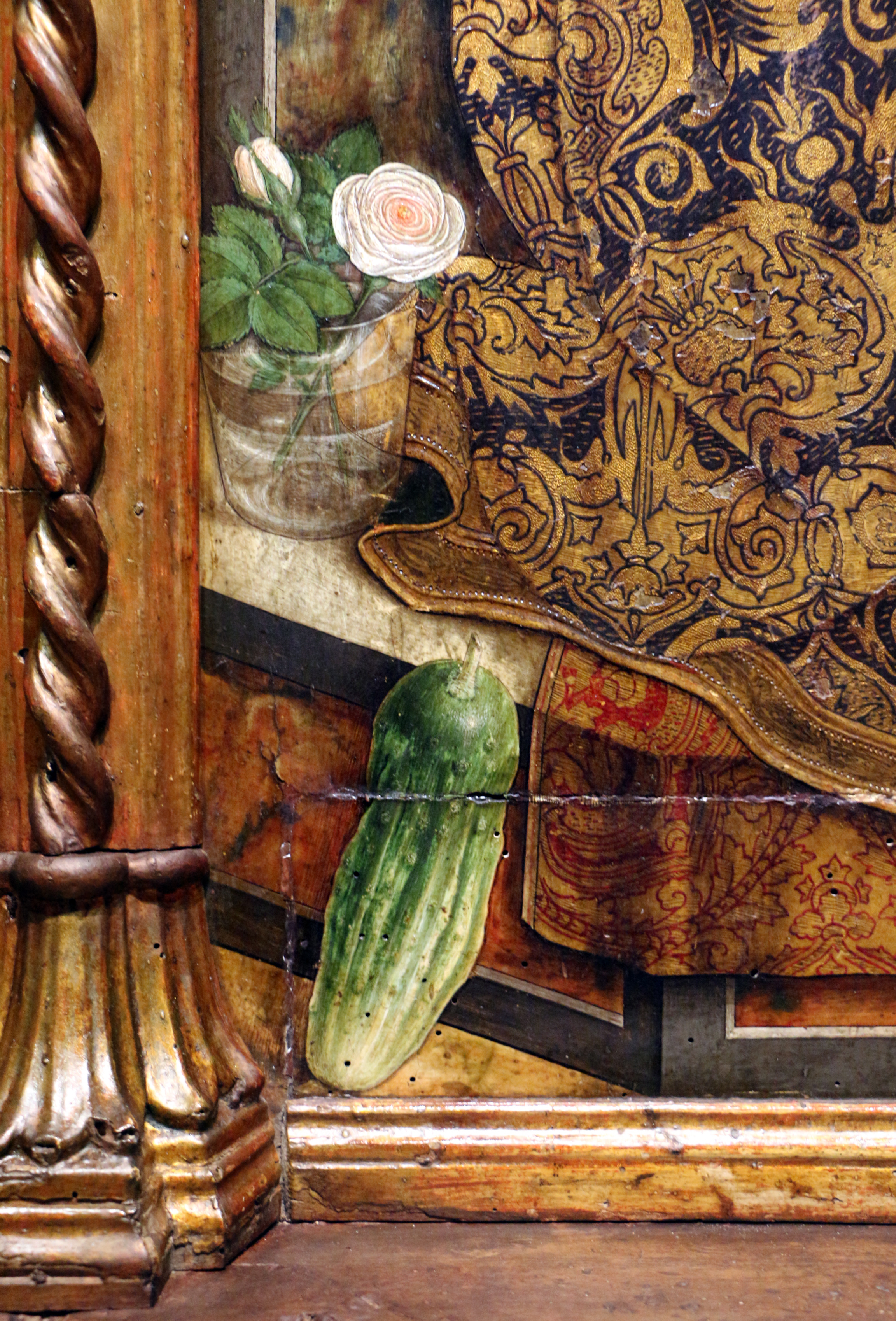 San Severino Polyptych by Vittore Crivelli